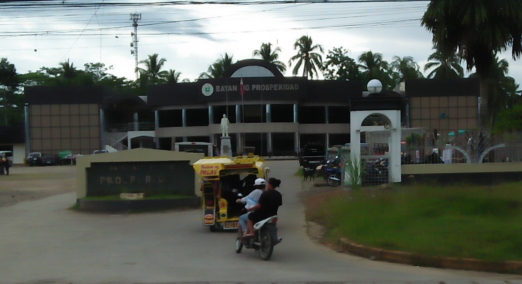 The Municipal Hall of Prosperidad, the Agusan del Sur's provincial capital.